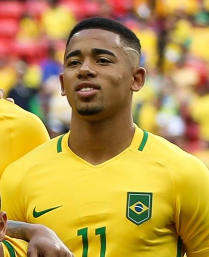 Brasília - Futebol masculino da seleção brasileira, deu o seu pontapé inicial na Olimpíada Rio 2016, em uma partida contra a África do Sul, no Estádio Mané Garrincha (Marcelo Camargo/Agência Brasil)